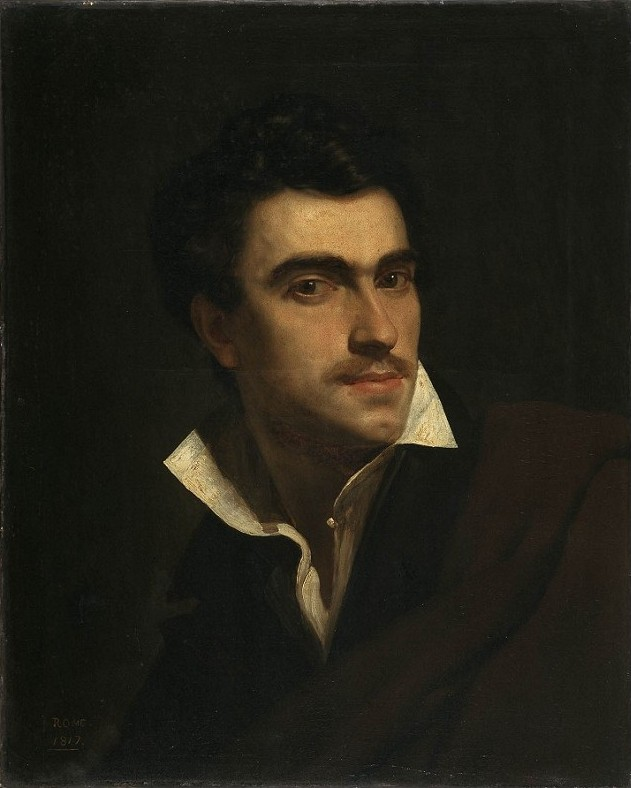 This self-portrait is Pierre van Hanselaere’s earliest known work.